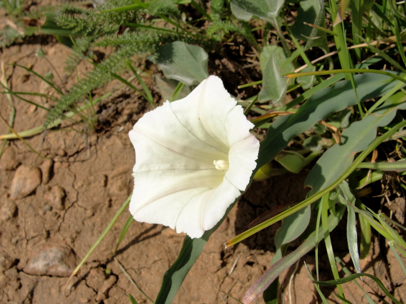 Calystegia purpurata subsp. purpurata — Pacific false bindweed or Purple western morning glory, flower. At the Ring Mountain Preserve, on the Tiburon Peninsula in Marin County, California.